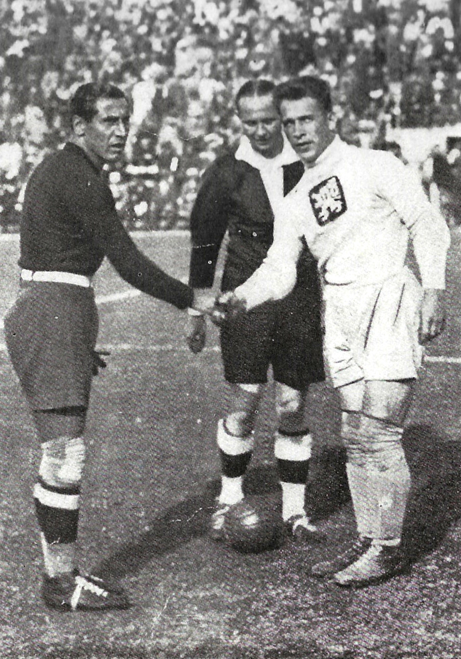 Goalkeepers and capitains Gianpiero Combi (for Italy) and František Plánička (from Czechoslovakia) share hands before the 1934 FIFA World Cup final in Rome